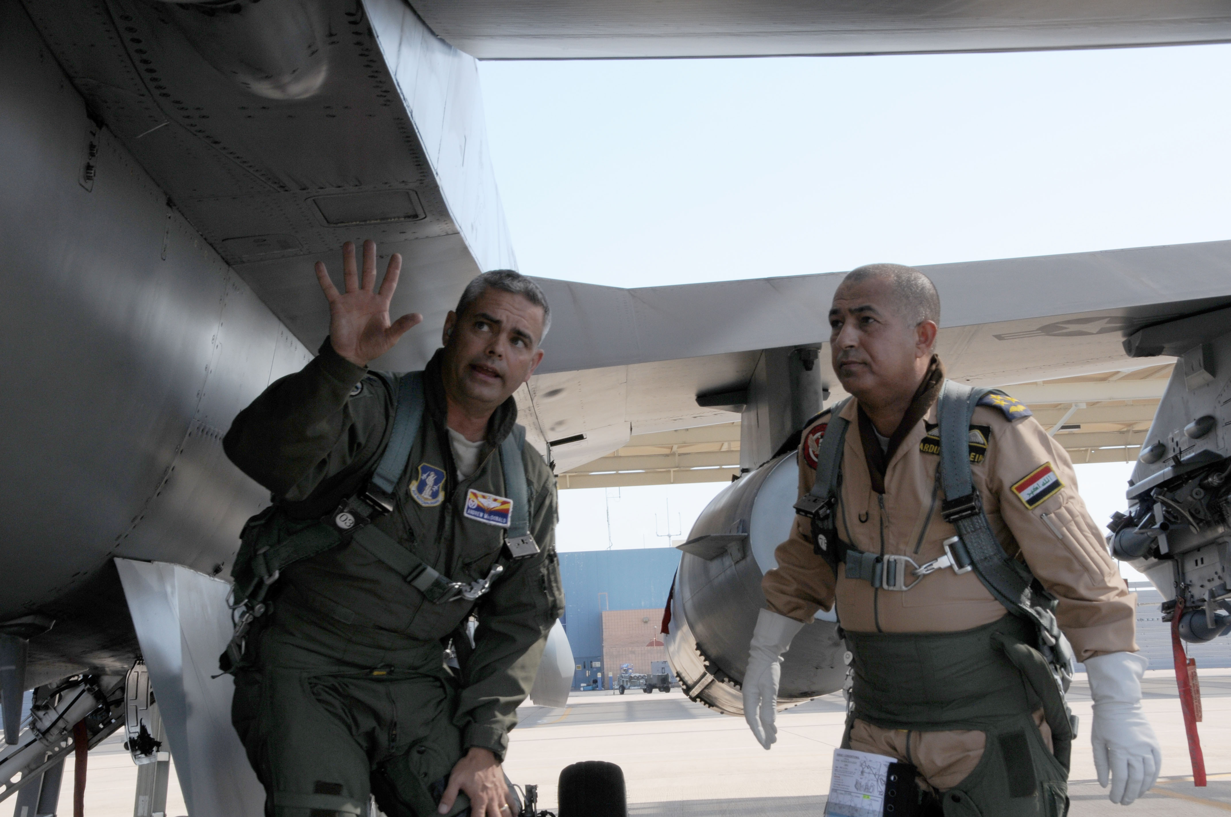 Col. Andrew MacDonald shows Iraqi air force Brig. Gen. Abdulhussein Lafta Ali Ali how to pre-flight an F-16D Fighting Falcon before an orientation flight at Tucson International Airport, Aug. 30, 2012. MacDonald is the 162nd Operations Group commander. Abdulhussein, with a delegation of senior Iraqi officers, visited the international F-16 training wing where Iraqi pilots are learning to fly the multirole fighter.